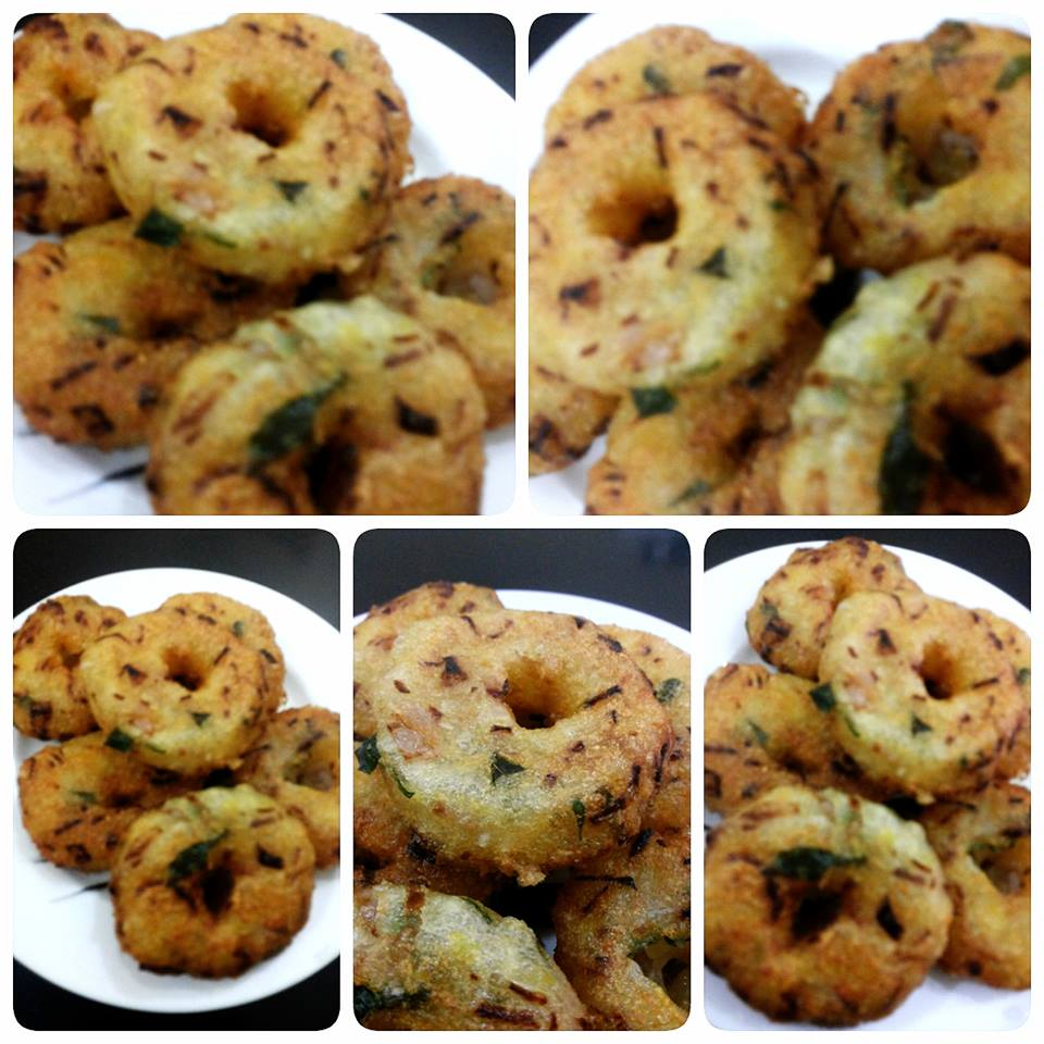 Traditional North Indian snack made by Sago.